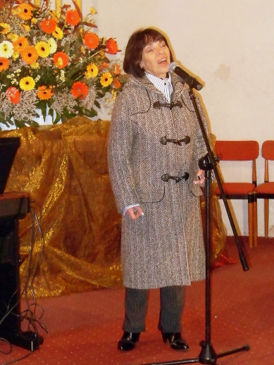 Sława Przybylska in Dygowo